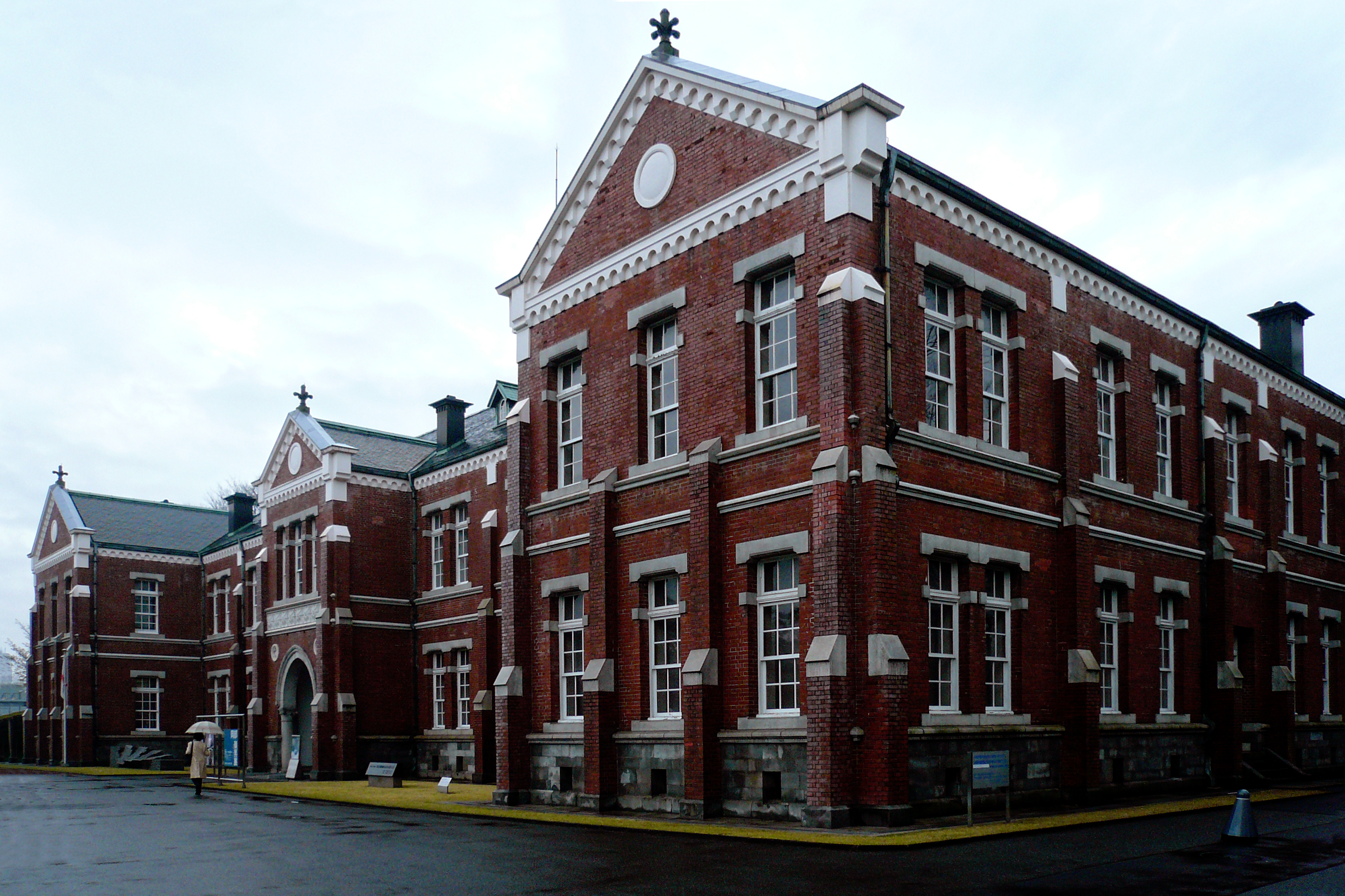 National Museum of Modern Art in Chiyoda-ku, Tokyo, Japan